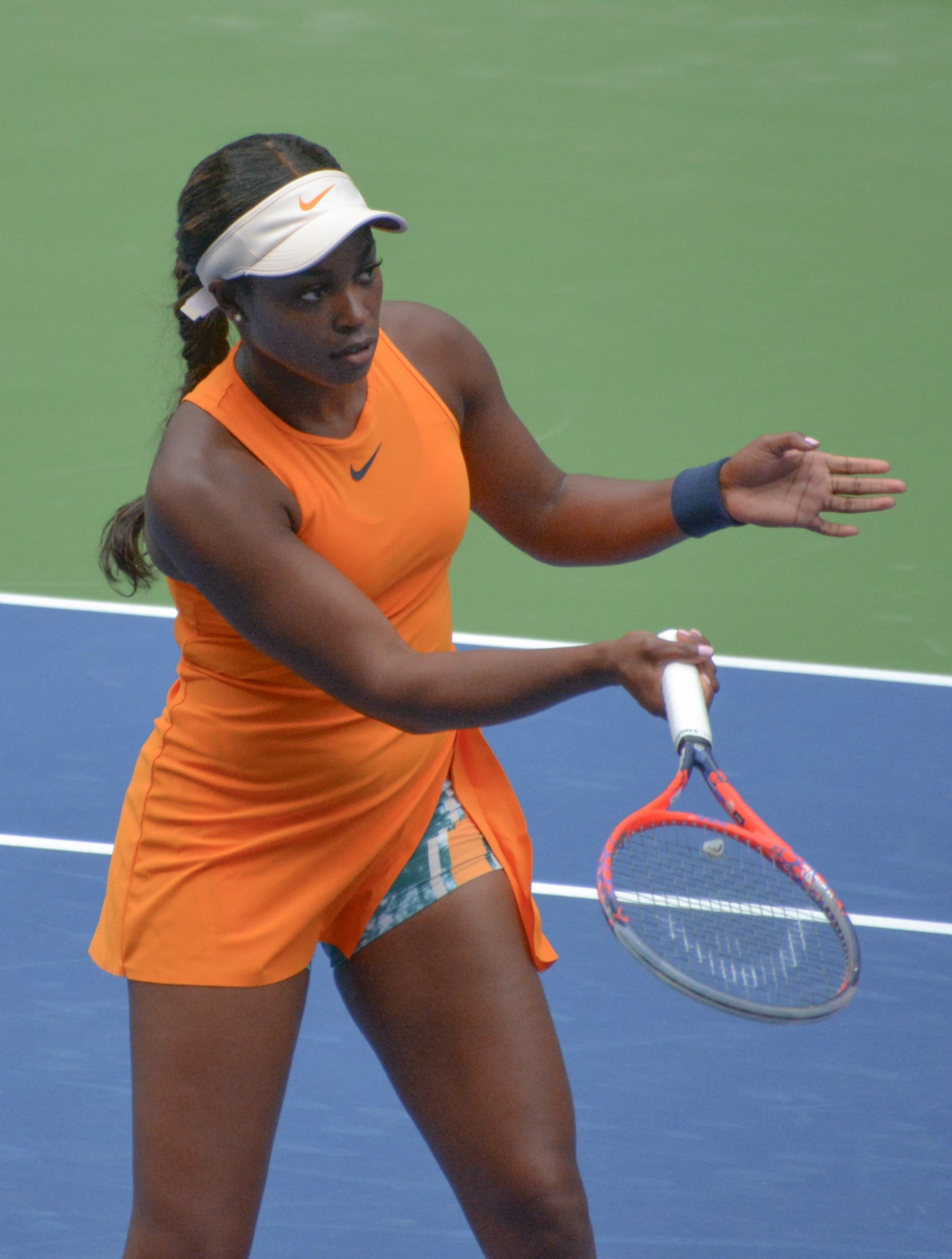 Day 1 of US Open 2018 – Monday, 27th August 2018.